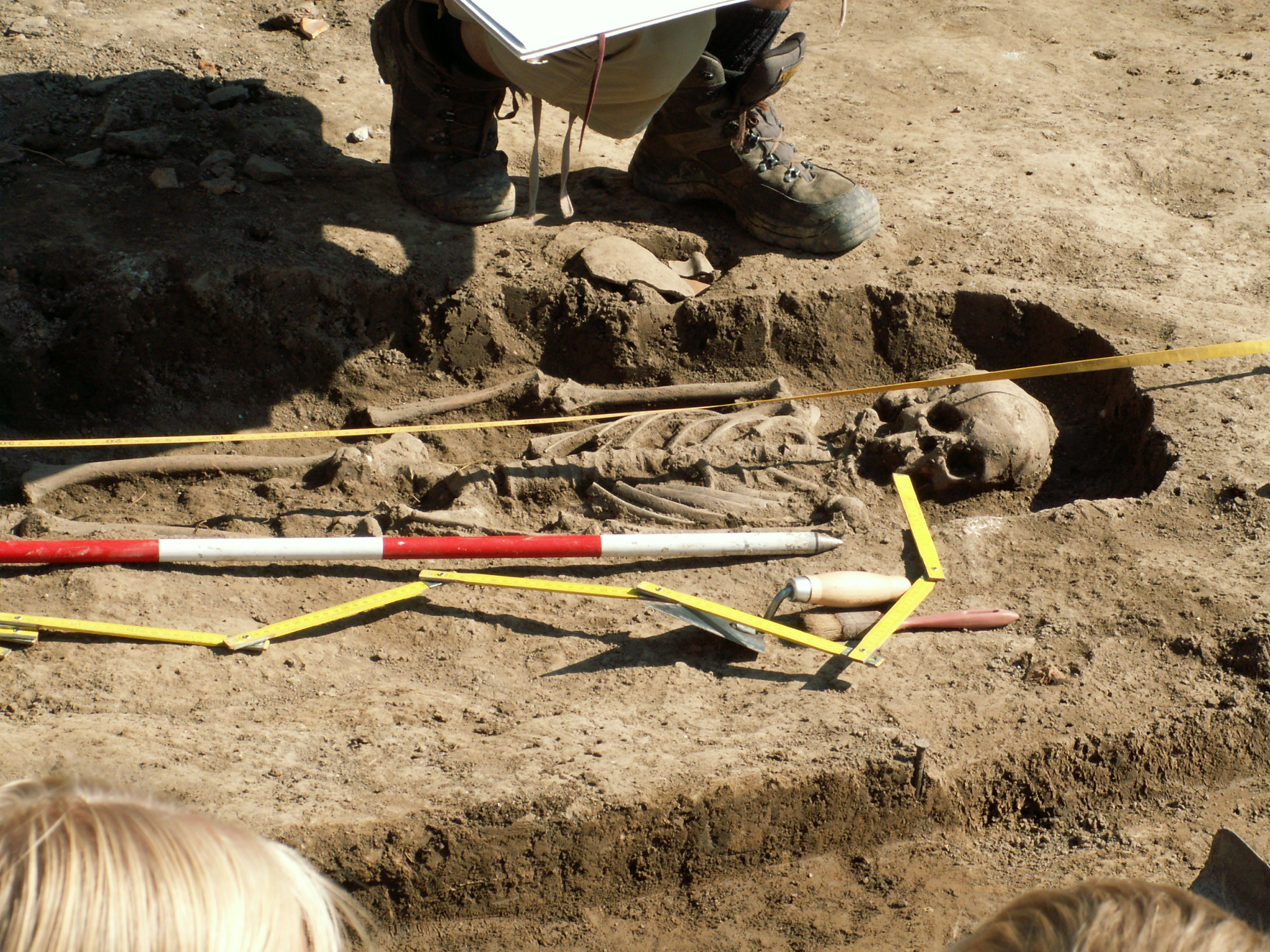 Předmostí (suburb of Přerov town, Czech Republic), archeological exploration (medieval tomb), September 2006